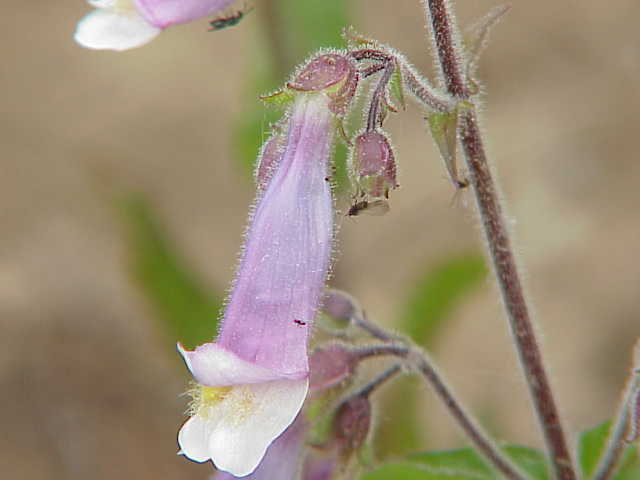 Species: Penstemon gracilis Family: Plantaginaceae Image No. 2